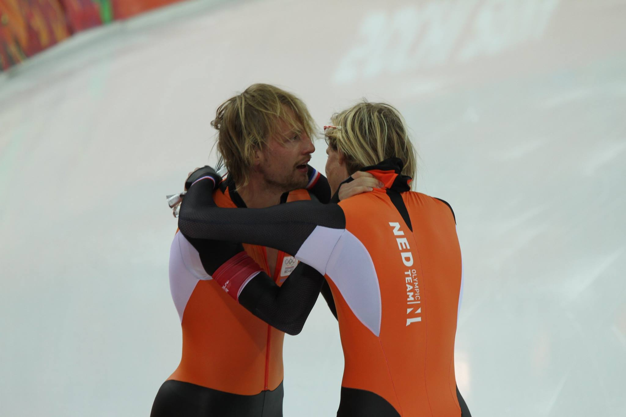 Men's 500m, 2014 Winter Olympics, Michel Mulder and Ronald Mulder celebrating their performances. Michel Mulder won Gold, Ronald Mulder won bronze